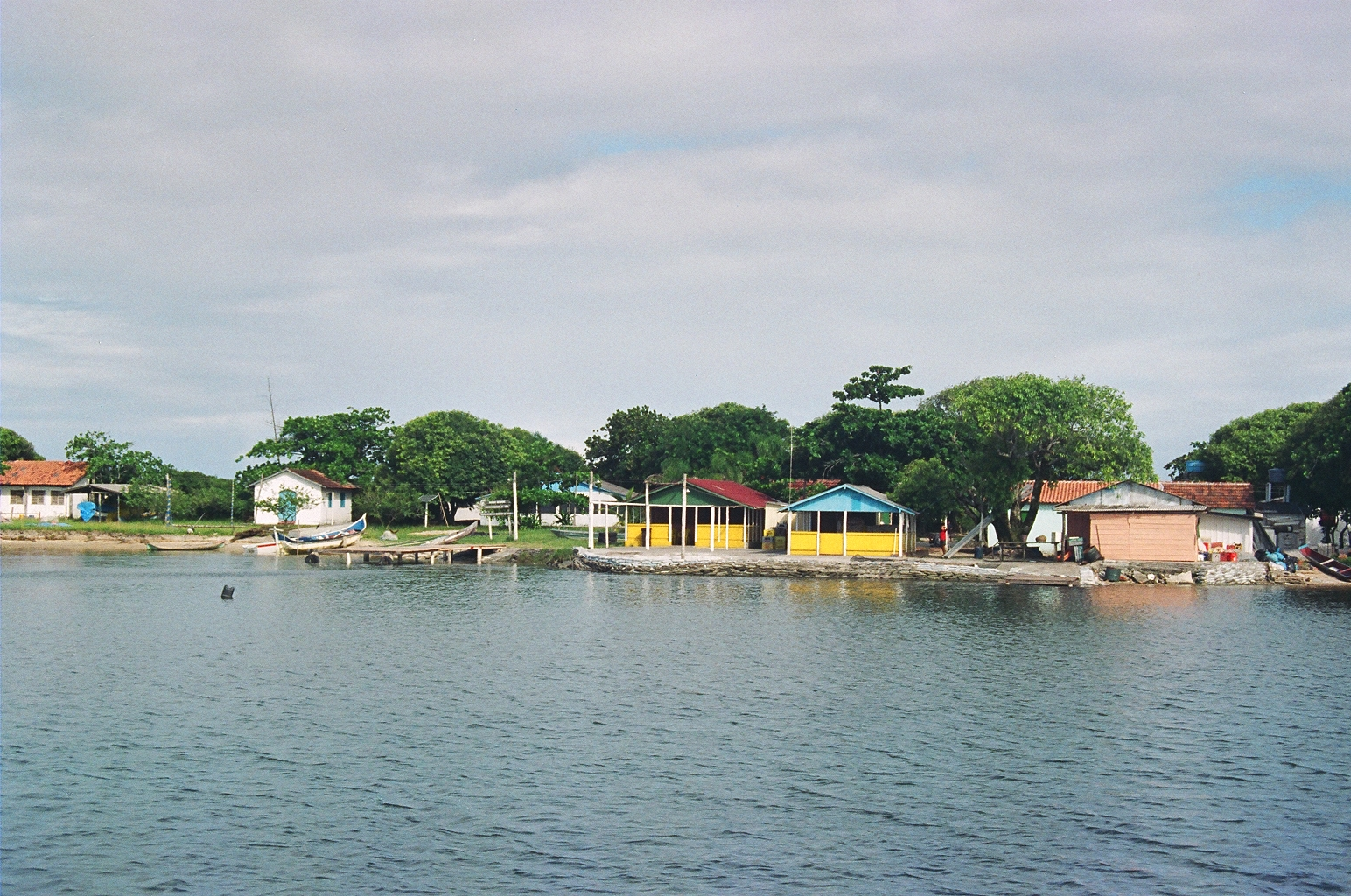 Partial view of the Caiçara do Marujá village, in Cananéia, São Paulo, Brazil.